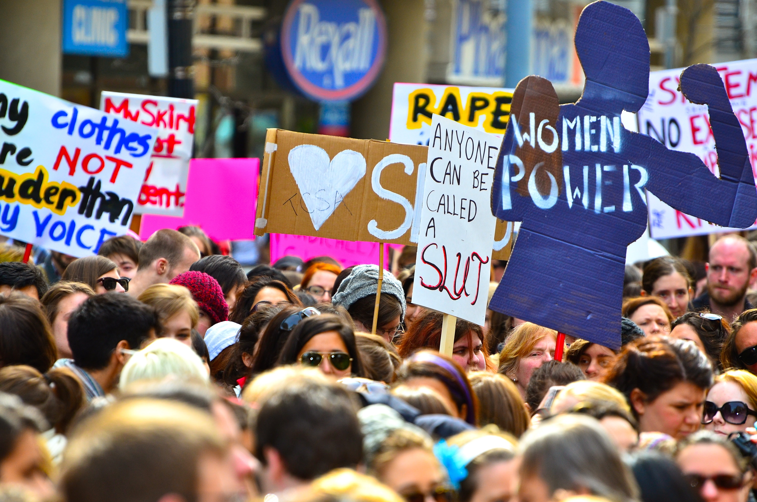 The first Slut Walk protest in Toronto, 3 April 2011